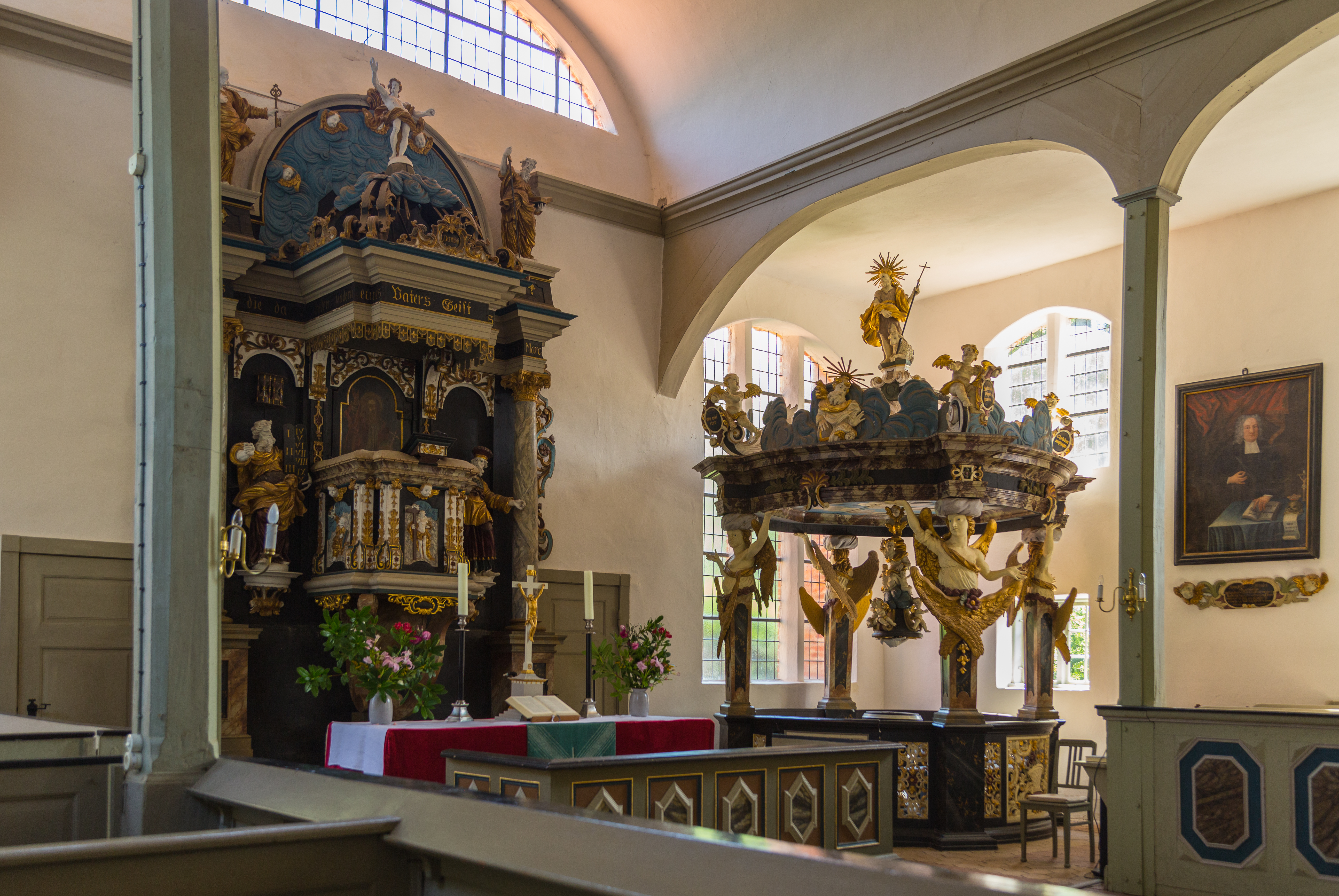 The baroque pulpit altar and baptismal font of the Protestant Seamen's Church (Seemannskirche) in Prerow, Landkreis Vorpommern-Rügen, Mecklenburg-Vorpommern, Germany.